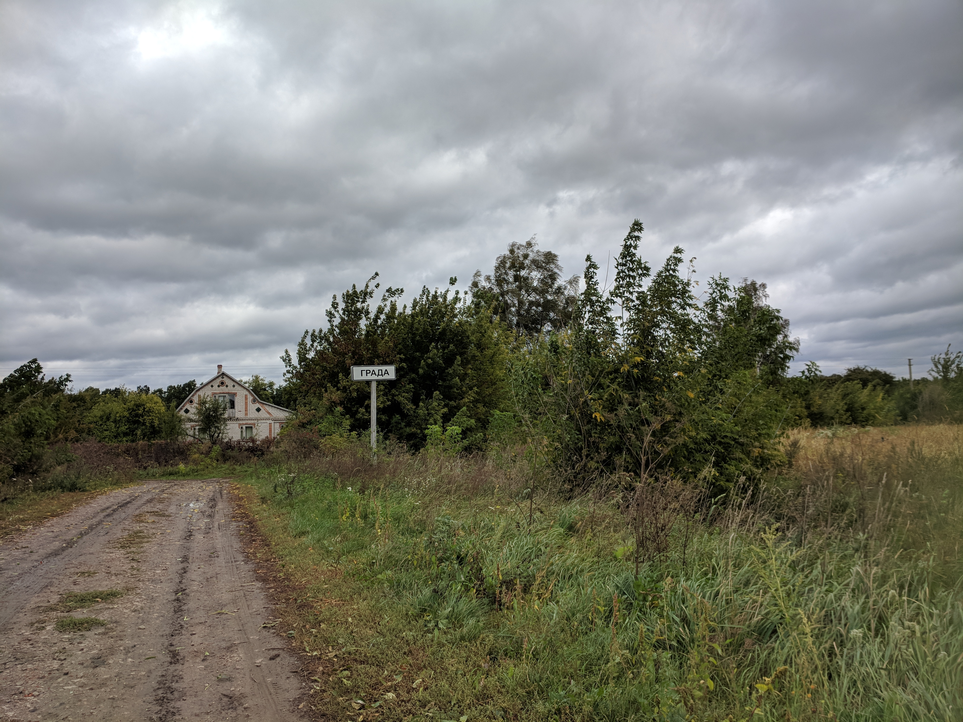 Hrada (Andrushivka Raion, Zhytomyr Oblast, Ukraine)